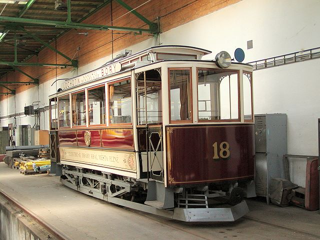 Brožík/Zeman/Křižík historical tram from 1899 in Plzen